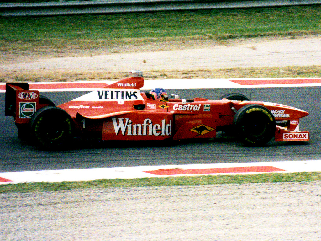 Jacques Villeneuve driving for WilliamsF1 at the 1998 Italian Grand Prix.